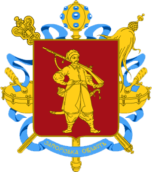 Coat of Arms of the Zaporizhzhya Oblast, Ukraine